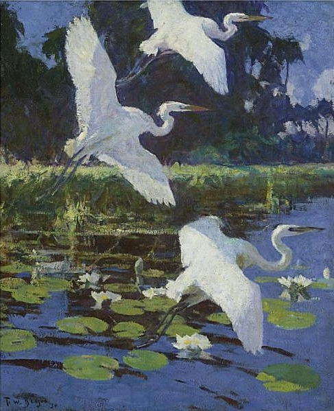 Great White Herons 1923 Frank Weston Benson